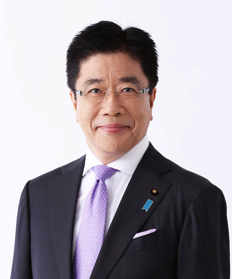 Minister of Health, Labour and Welfare Katsunobu Katō.